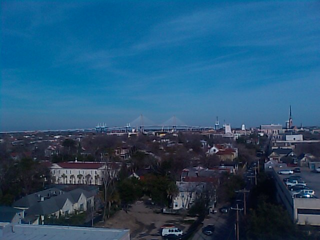 View of downtown Charleston and the Arthur J Ravenel Bridge from atop the MUSC Ashley-Rutledge Parking Garage facing 61.28° north west. 79°56'44.18"W, 32°47'6.44"N